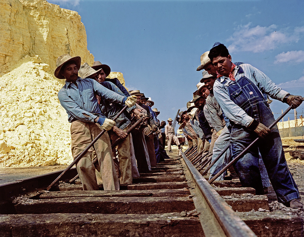 Title: [Workers Adjusting Railroad Tracks, Texas Gulf Sulphur Company] Creator: Robert Yarnall Richie Date: ca. 1939 Place: Port Sulphur, Louisiana *this is certainly incorrect. Port Sulphur is on the Mississippi River Gulf Outlet and the highest elevation is the top of the levee. There are no mountains there. More likely near Matagorda, Texas, where the Texas Gulf Sulphur Company had its mines. Part Of: Robert Yarnall Richie Photograph Collection Description: This image shows Texas Gulf Sulphur Company workers adjusting the railroad tracks. Physical Description: 1 transparency: film, color; 10.1 x 12.6 cm File: ag1982_0234_1990_K_01_texgulfsulphurco_sm_opt.jpg Rights: Please cite Southern Methodist University, Central University Libraries, DeGolyer Library when using this image file. A high-quality version of this file may be obtained for a fee by contacting . For more information, see: View the Robert Yarnall Richie Photograph Collection